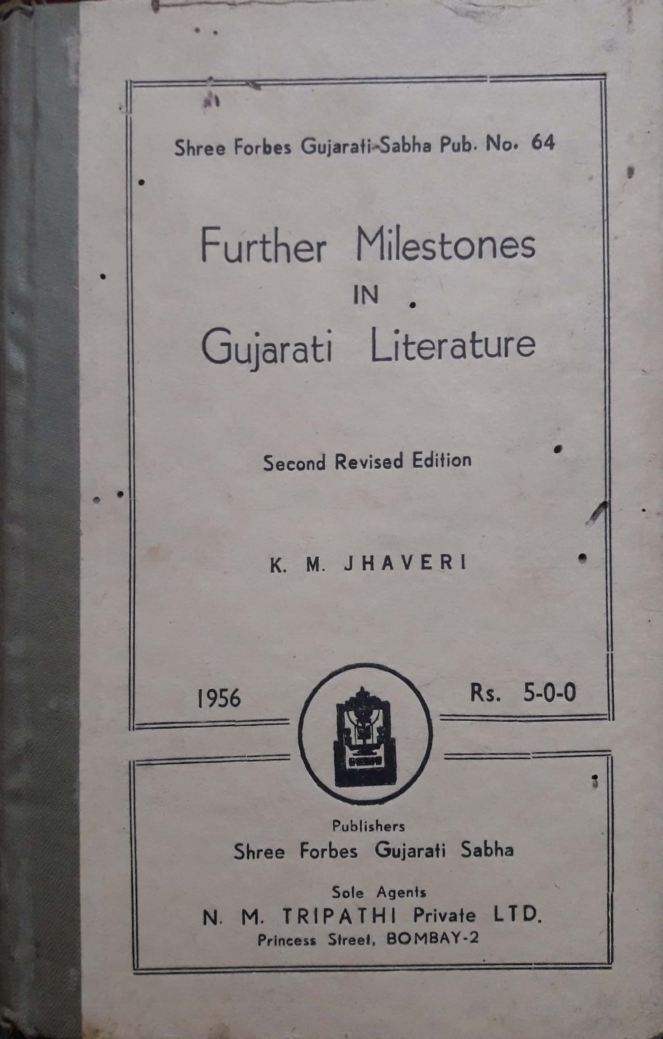 Cover page of the second revised edition of Further Milestones In Gujarati Literature, a book written by Gujarati writer Krishnalal Mohanlal Jhaveri, first published in 1924. It gives the history of Gujarati literature of from modern era.